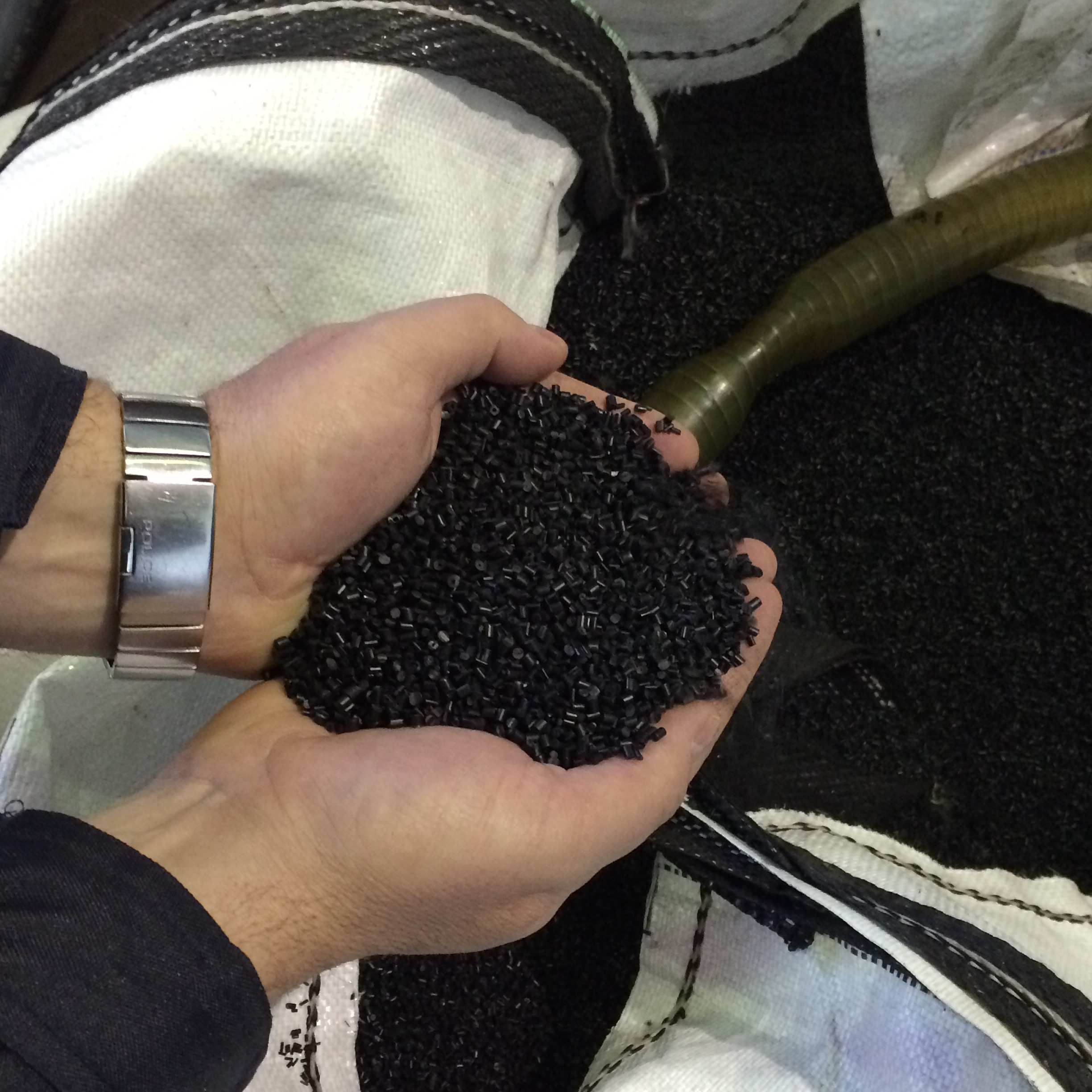 This is an image of "African people at work" from South Africa